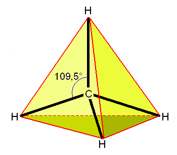 Methane molecule geometry